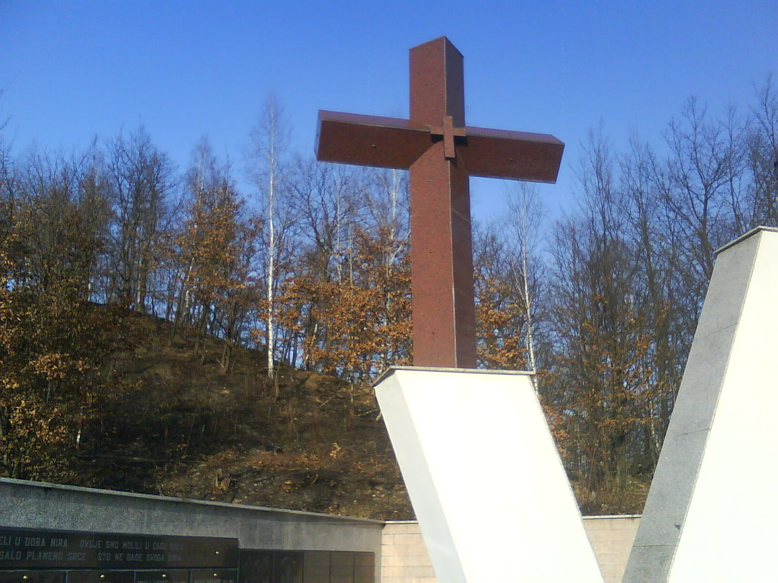 Monument in a tribute of victims from Križančevo selo killings,a war crime committed over Croats by Bosniaks troops